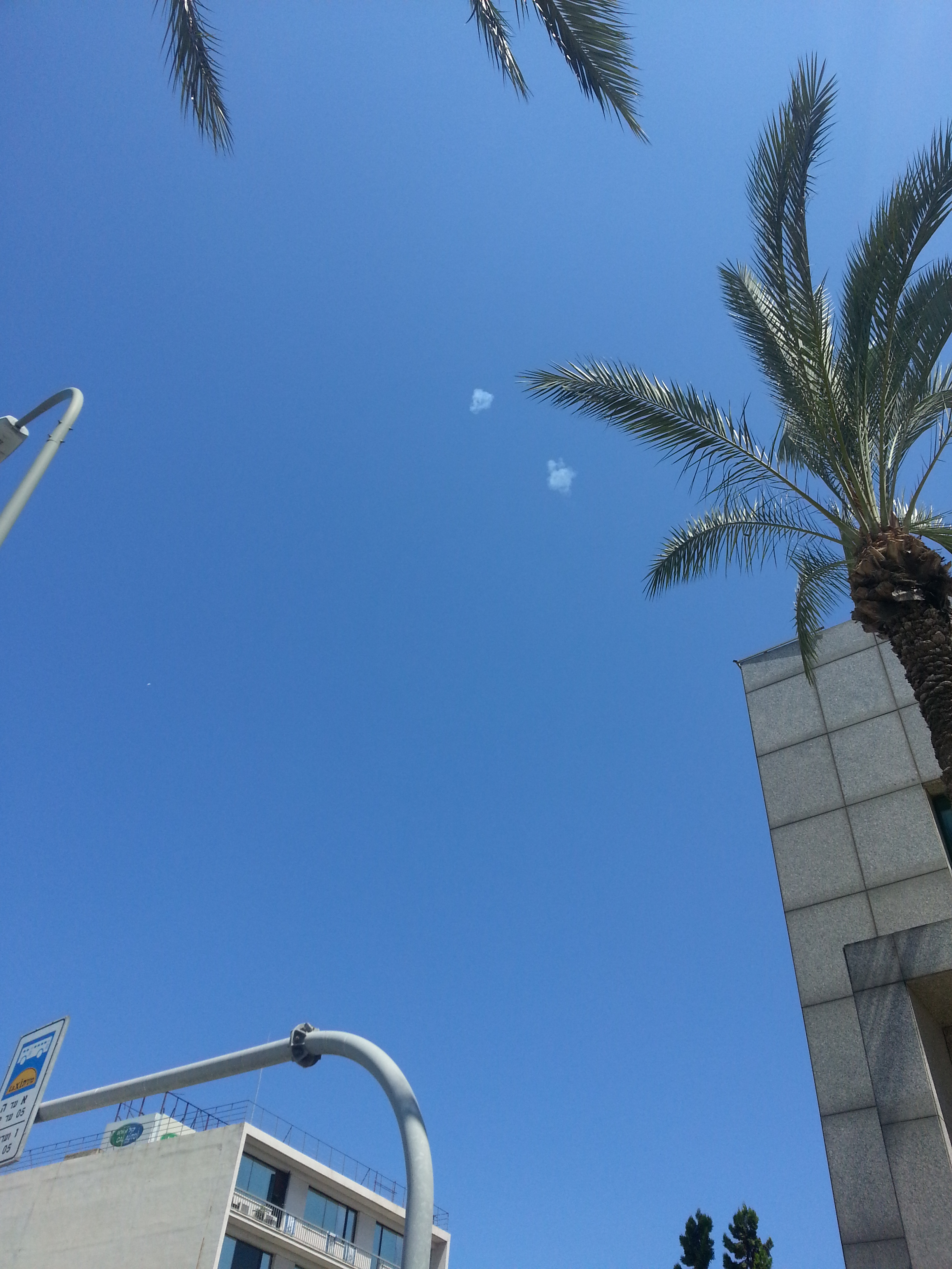 Israel's Iron Dome battery intercepts two Palestinian rockets over Tel Aviv, 24 July 2014 (Operation Protective Edge)